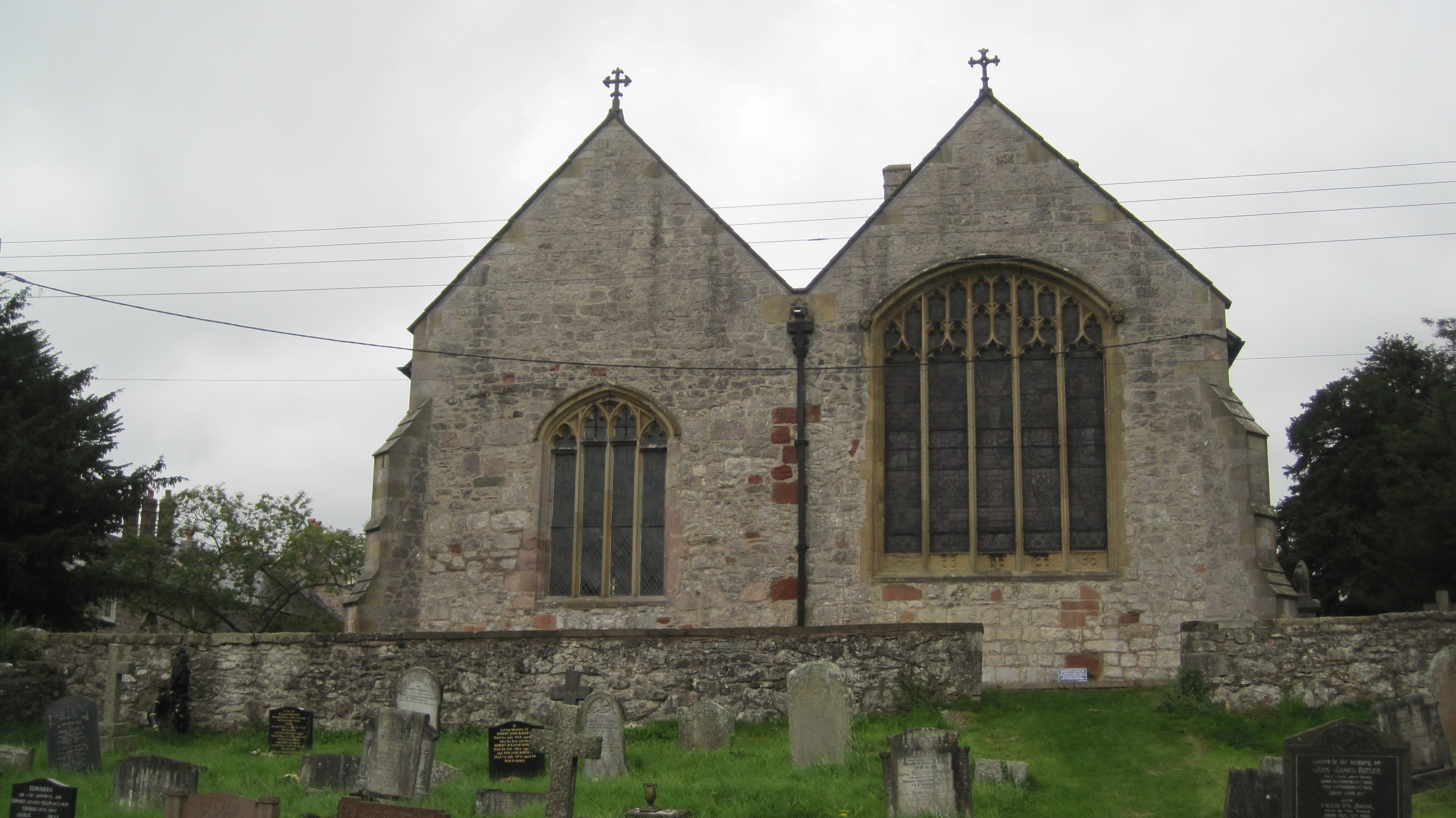 The Church of St Cynfarch and St Marys, Llanfair DC near Ruthin, Denbighshire, Wales. Mosaic of stained glass in the south window which dates from 1503